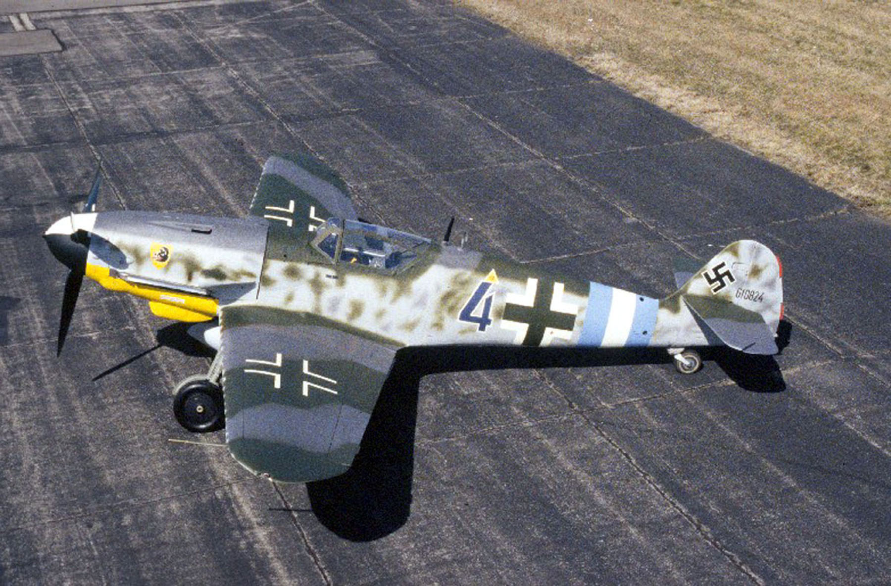 Messerschmitt Bf 109G-10 at the National Museum of the United States Air Force in Dayton, Ohio.